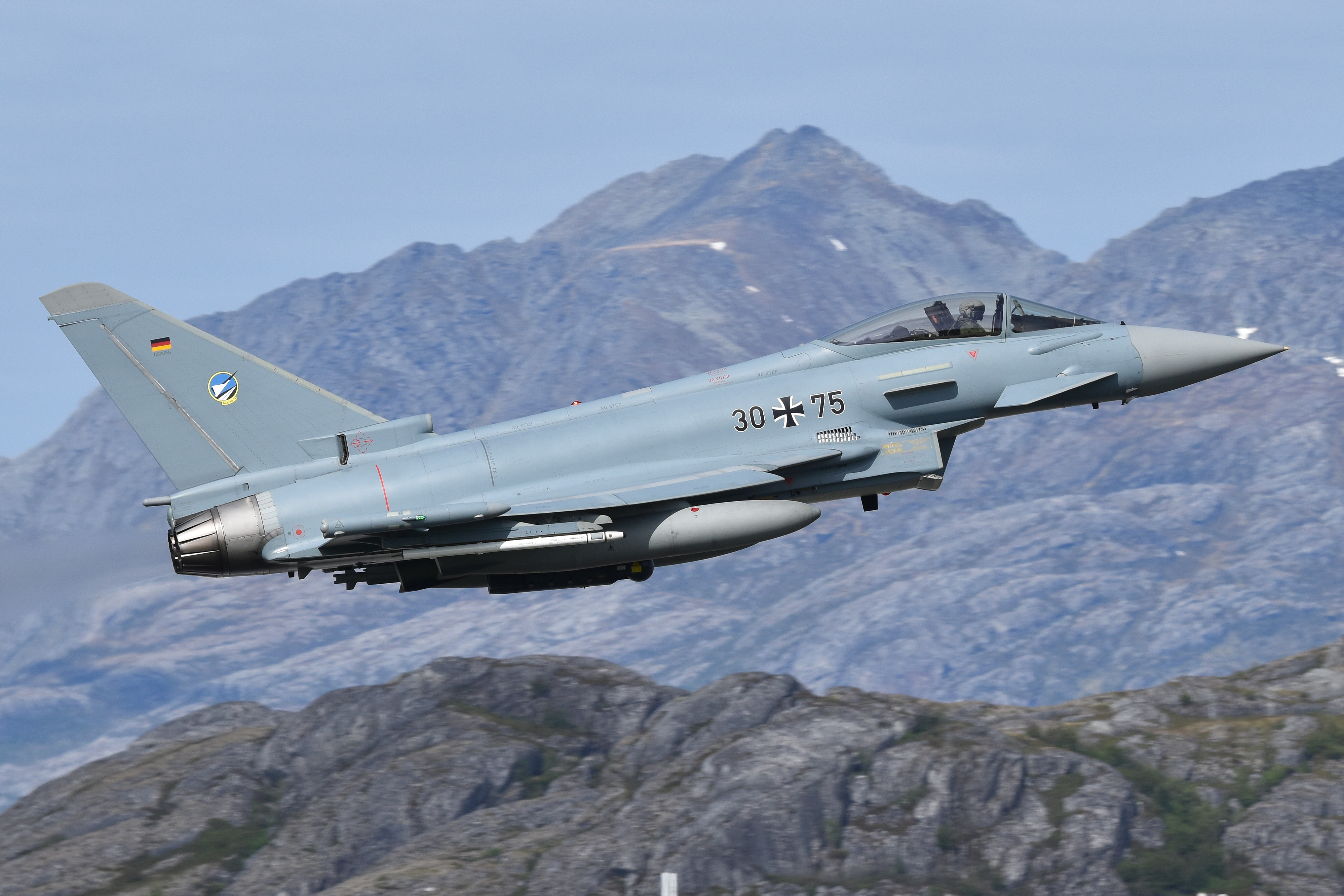 c/n unknown, l/n GS056 Operated by Taktisches Luftwaffengeschwader 74 (TLG-74), a Luftwaffe unit based at Neuburg in Bavaria. Seen departing on a mission during Arctic Challenge Exercise 2019 (ACE19). Bodø Main Air Station, Northern Norway 24th May 2019